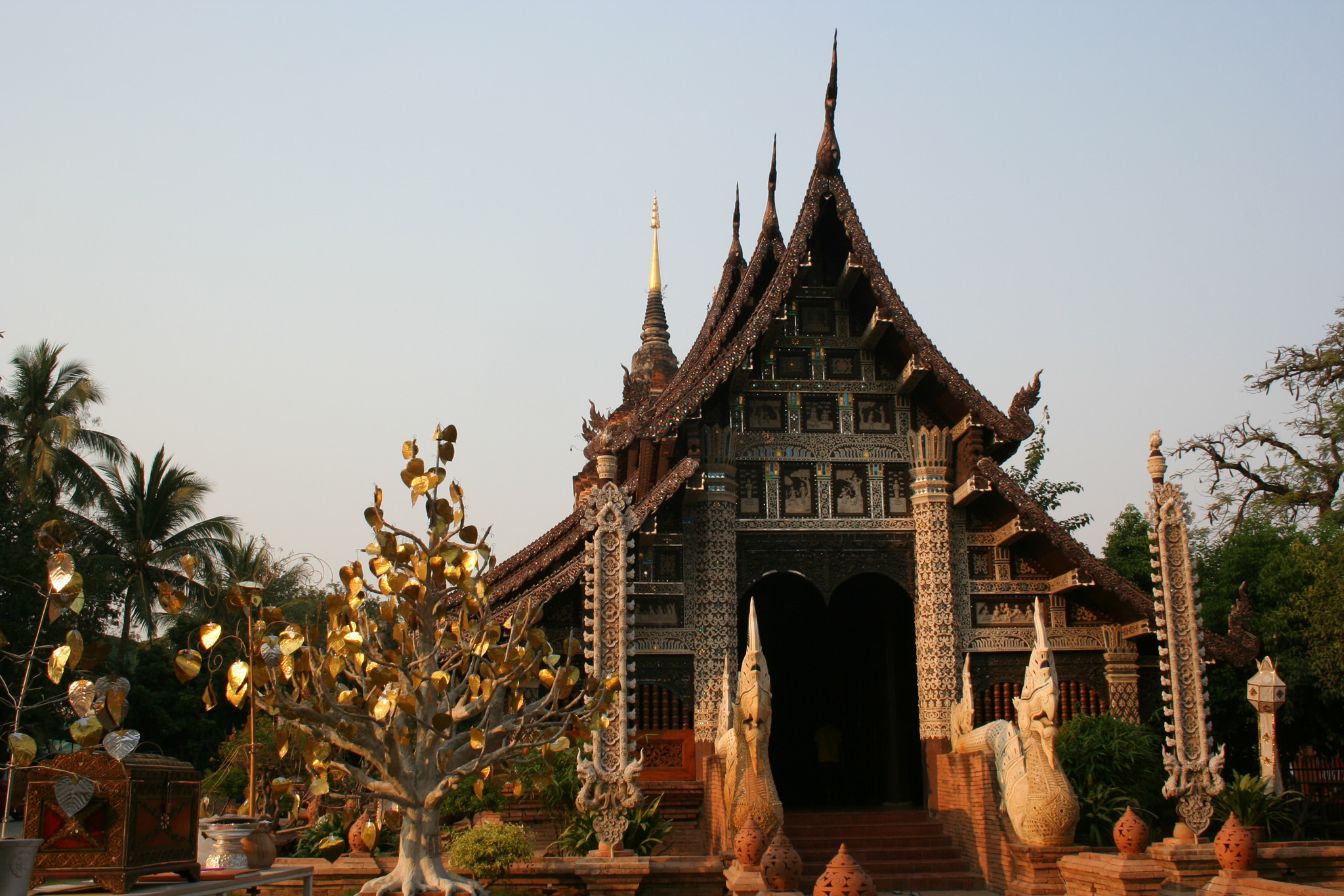 The Vihara or Main Prayer Hall of Wat Lok Molee in Chiang Mai, Thailand